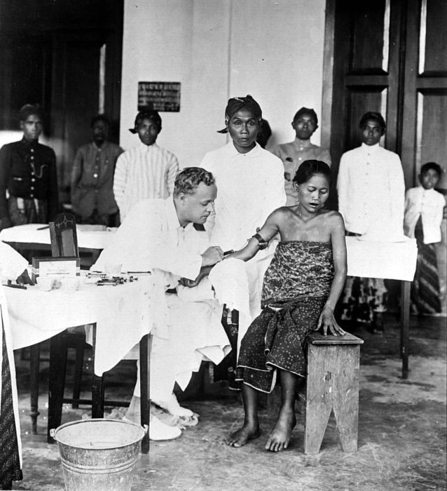 A European Indonesian vaccinates patients with neo salvarsan against the tropical disease yaws